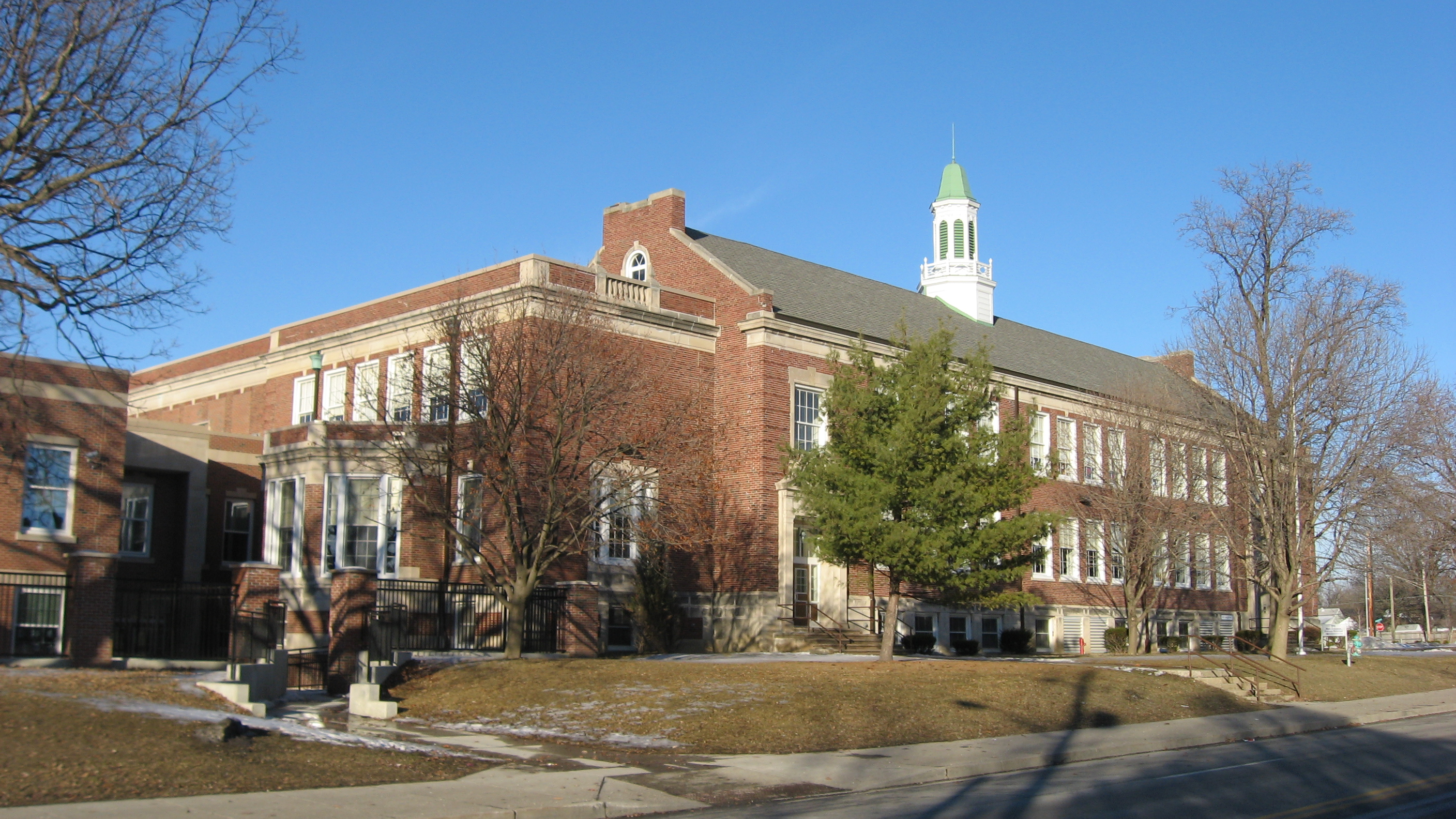 Front of the Christian Park School No. 82, located at 4700 English Avenue in Indianapolis, Indiana, United States. Built in 1931, it is listed on the National Register of Historic Places.